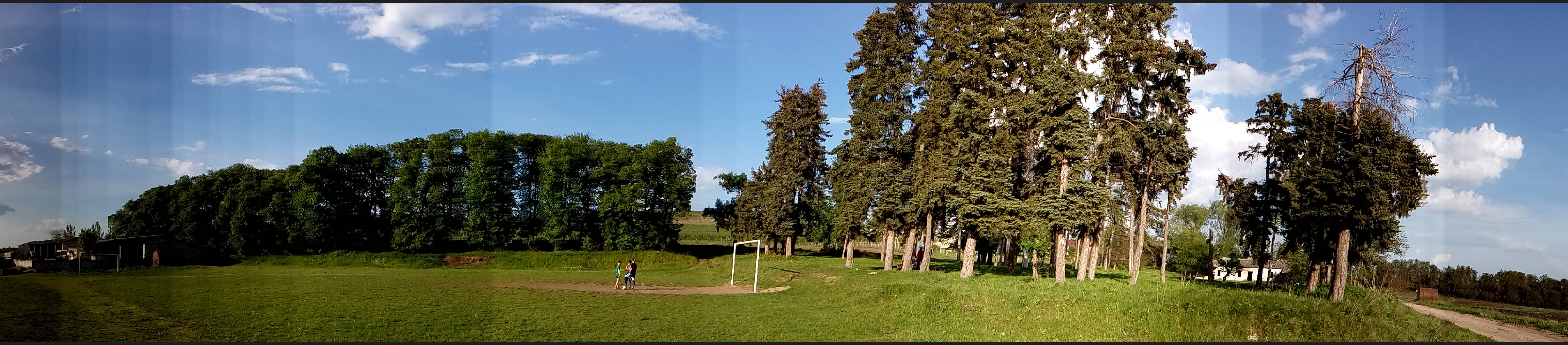 Park of larch, linden and coniferous trees in Rassvet, Strășeni District, Moldova